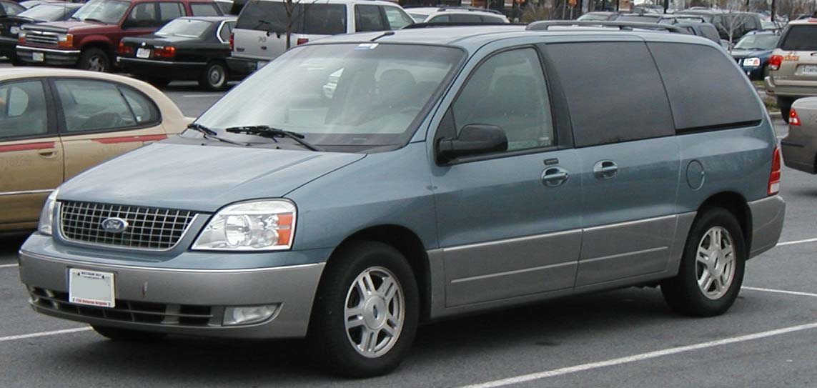 2004-2006 Ford Freestar Limited photographed in USA.